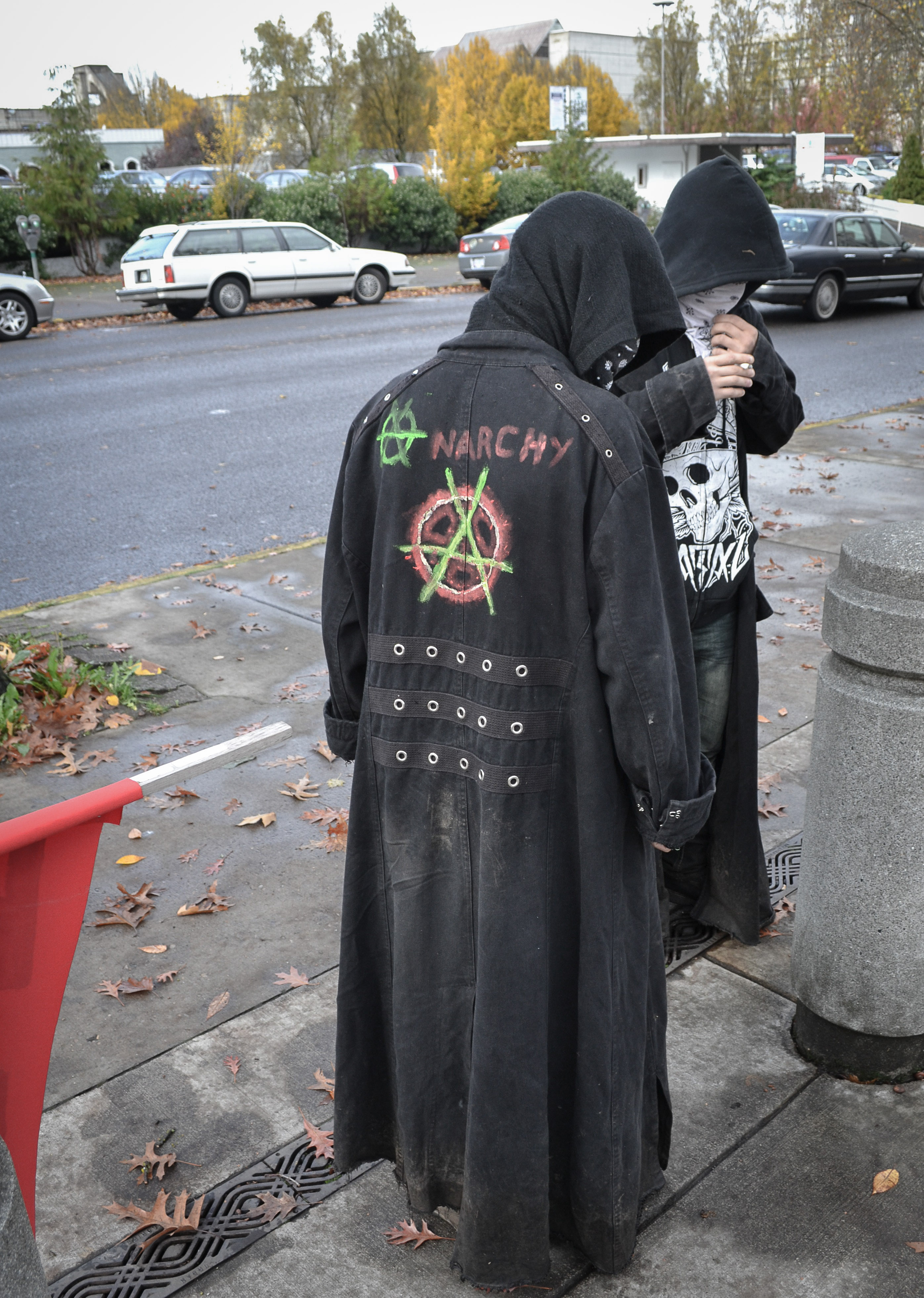 Anarchists at an Occupy Eugene event in November, 2011